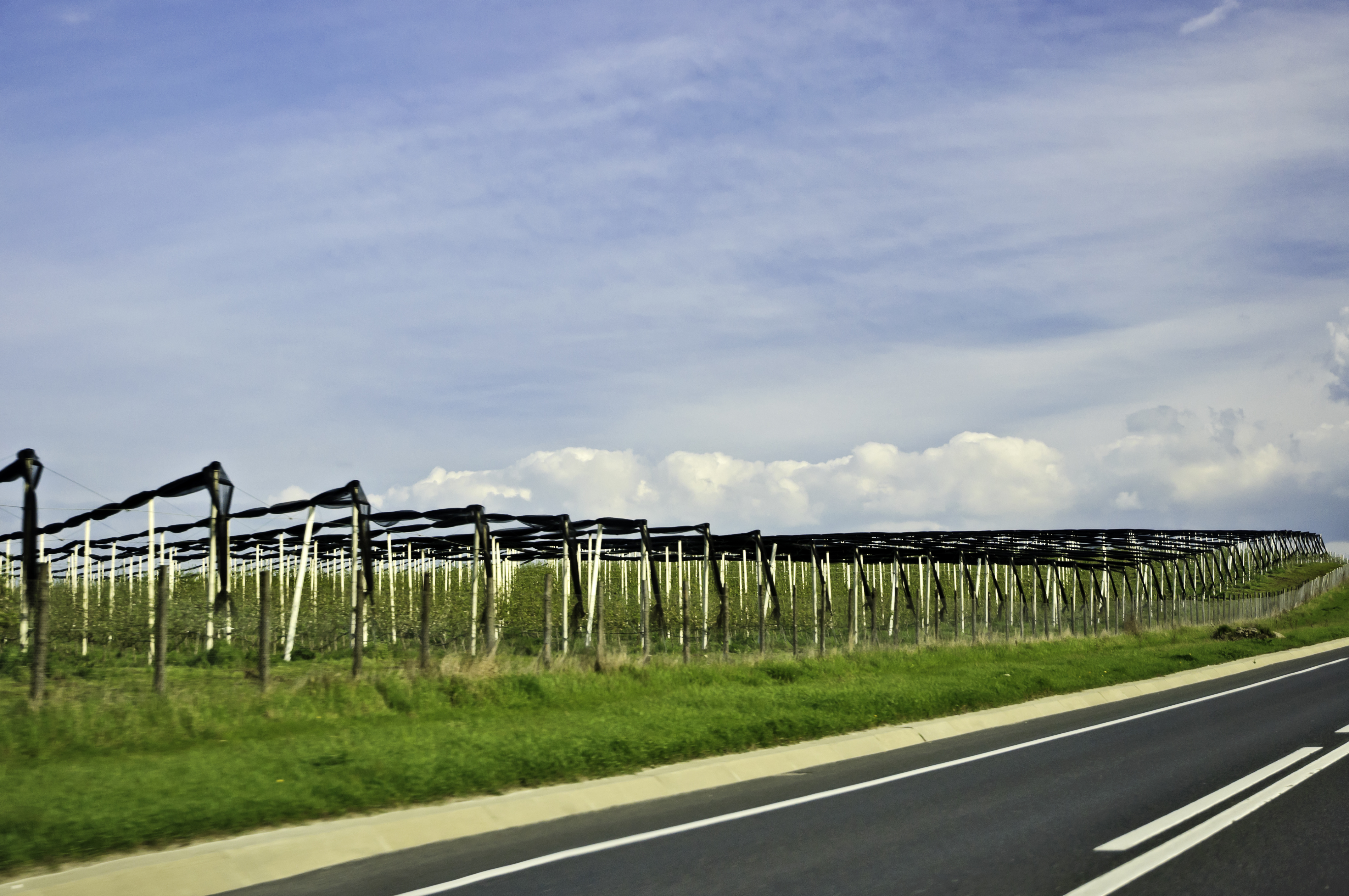 Structure supporting vines in a hop yard